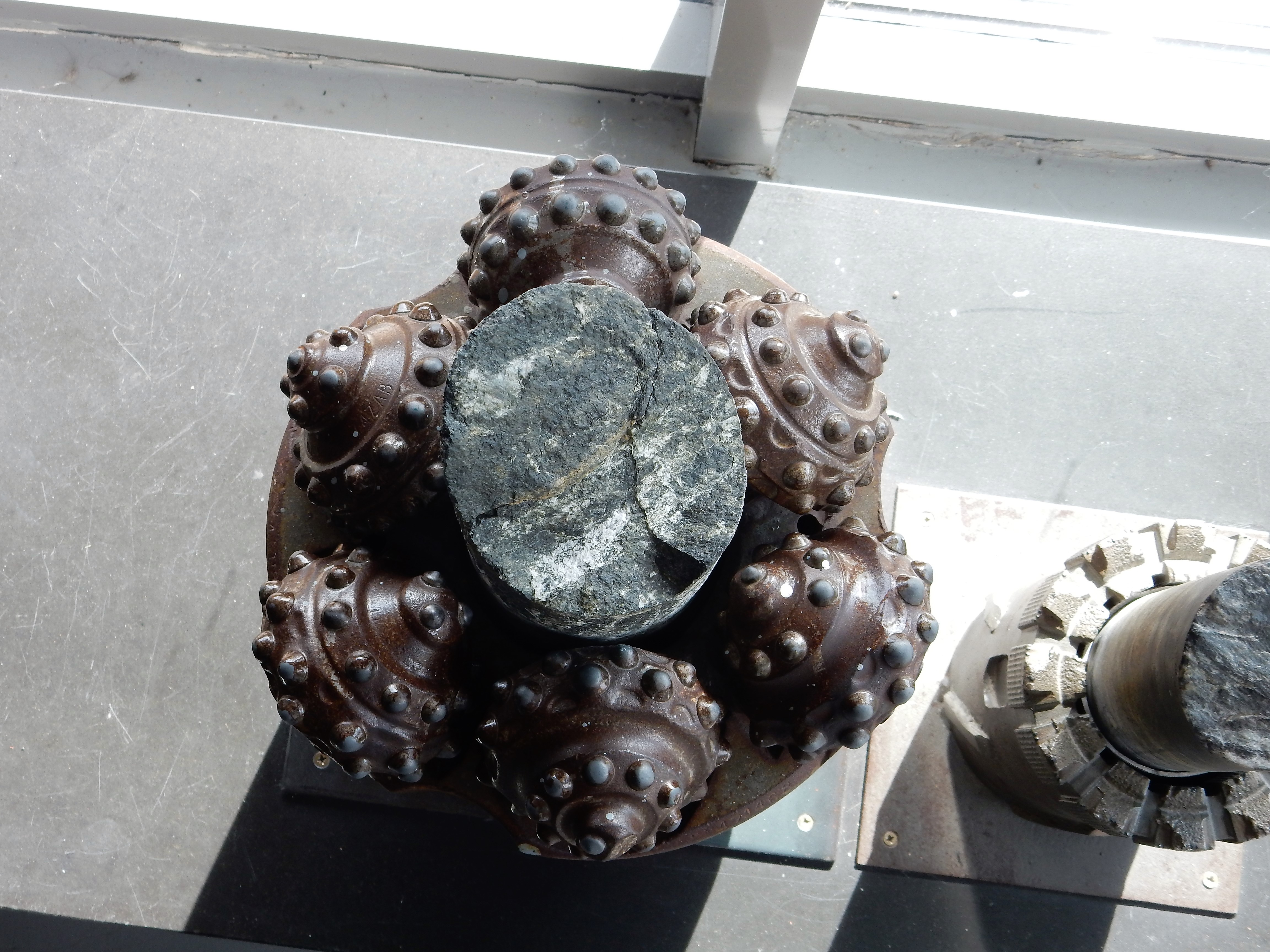 Drilling bit, used at the German Continental Deep Drilling Programme in Windischeschenbach, Bavaria